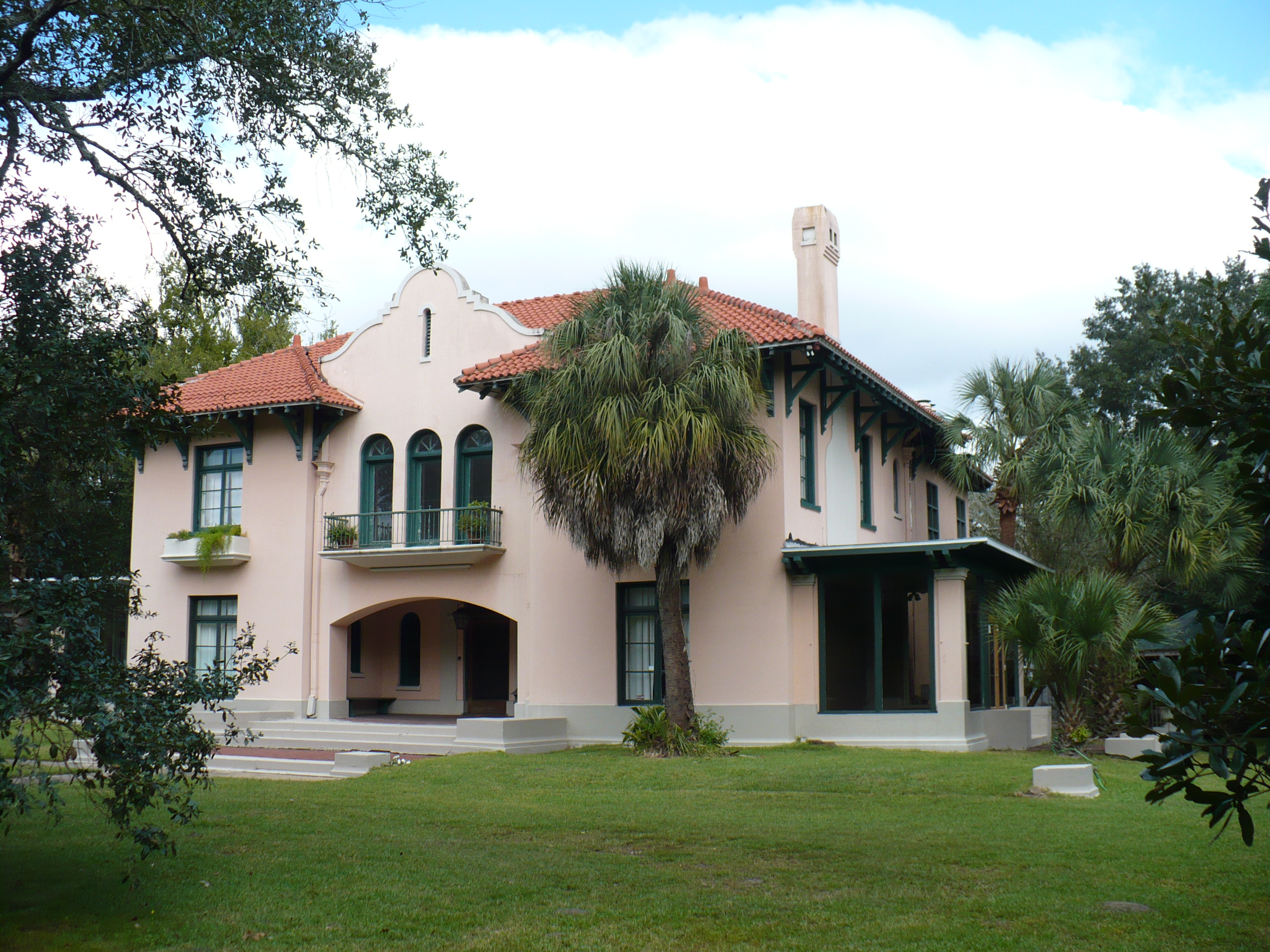 1806 Airport Boulevard (George Fearn House) in Mobile, Alabama. An example of Spanish Colonial Revival architecture of the Central Gulf Coast of the United States.